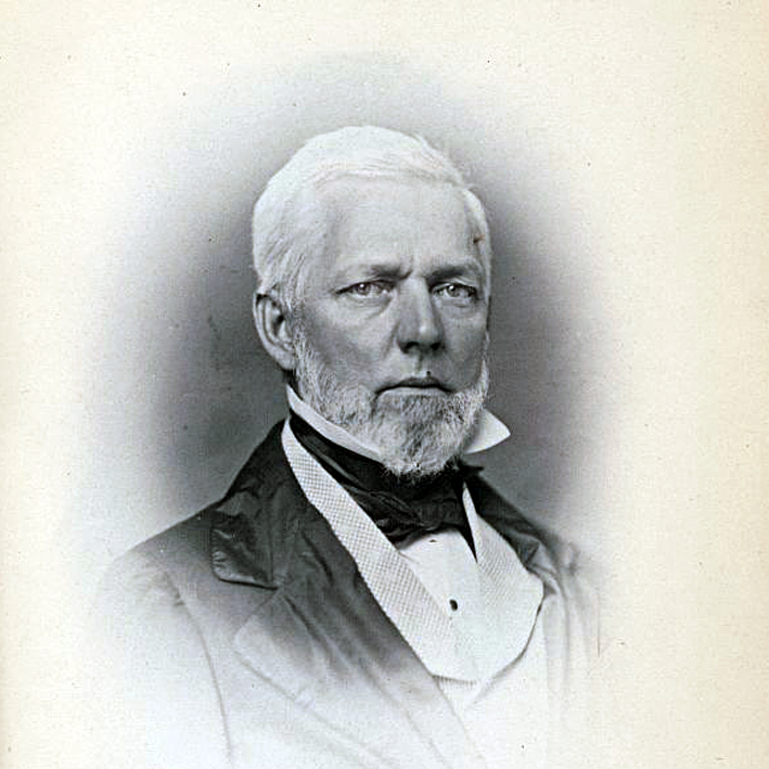 Israel T. Hatch, US Representative from New York